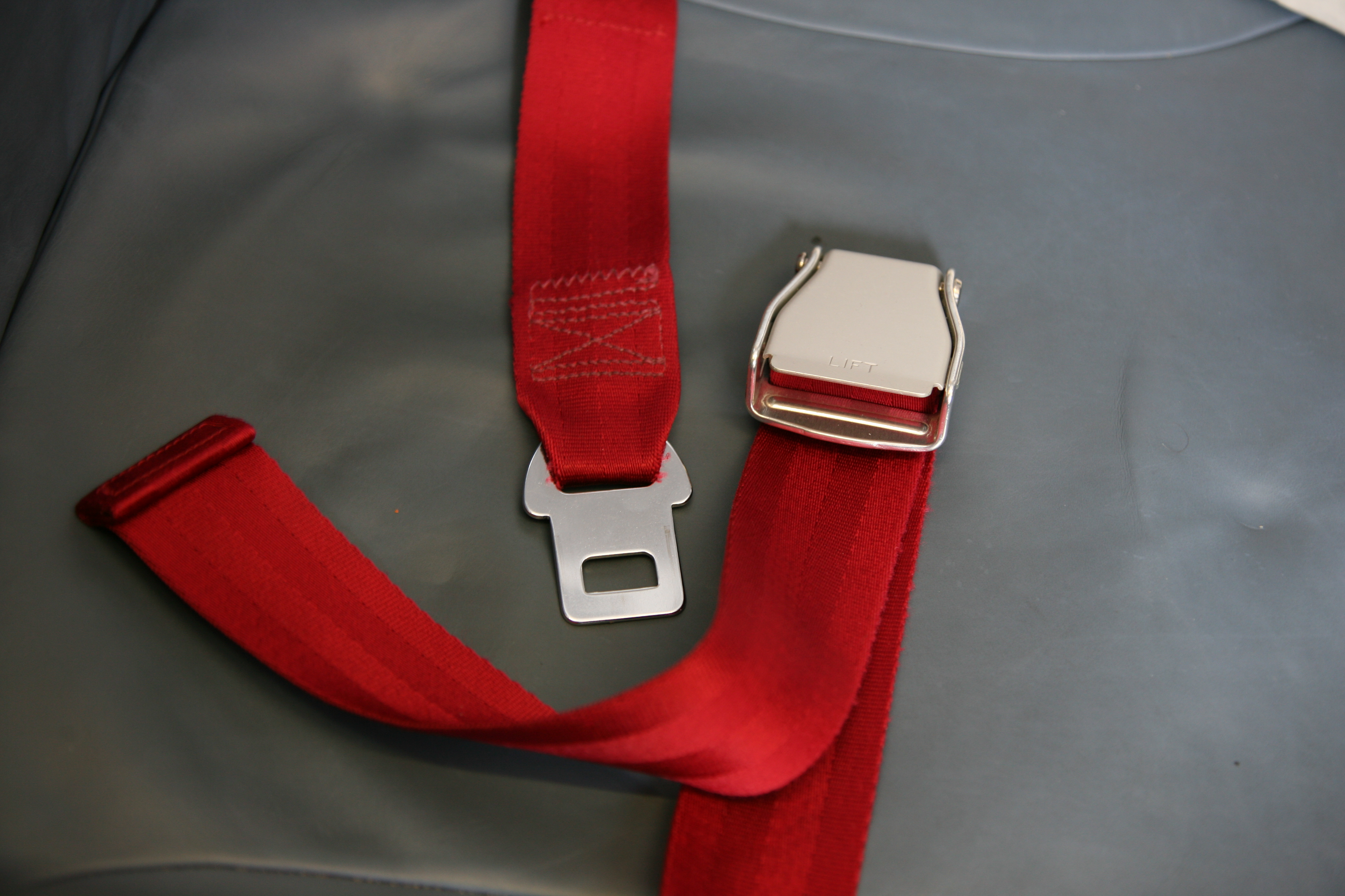 Seat belt on an airplane, open